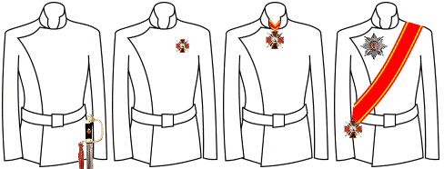 Order of St. Anna